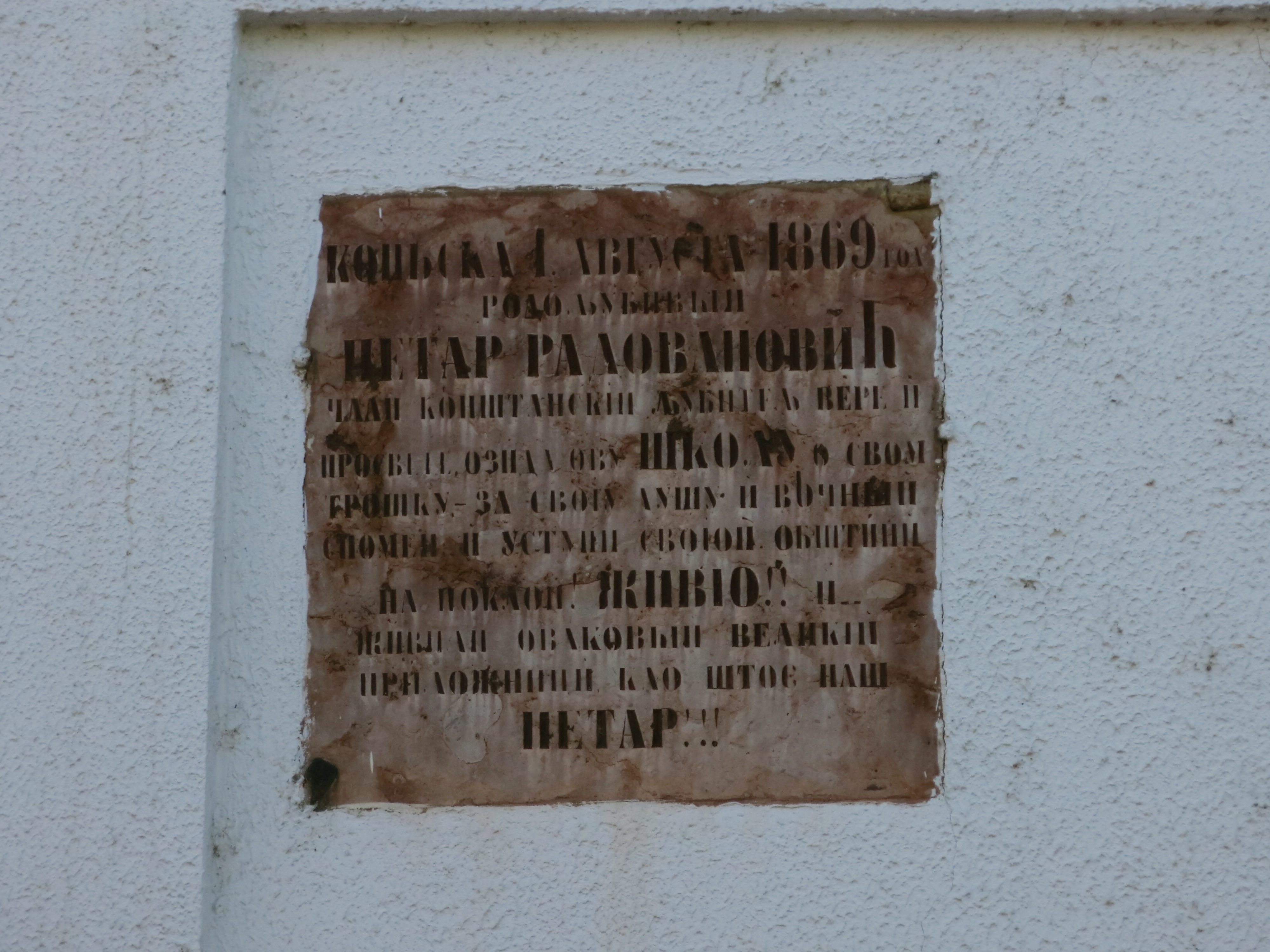 Mihajlovac, Cultural center